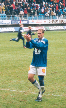 Molde F.C. player Andreas Lund in a match against Tromsø I.L.